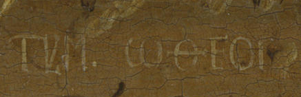 Detail from Portrait of a Man ('Léal Souvenir')